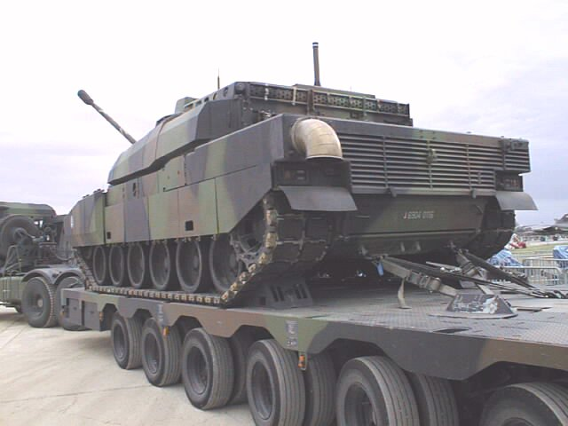 AMX Leclerc on a Lohr semi-trailer, in Avord Air Base, France.